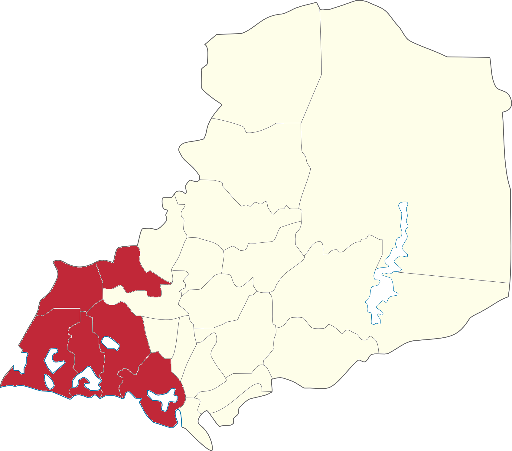 Location of 1st Legislative district of Bulacan, Philippines